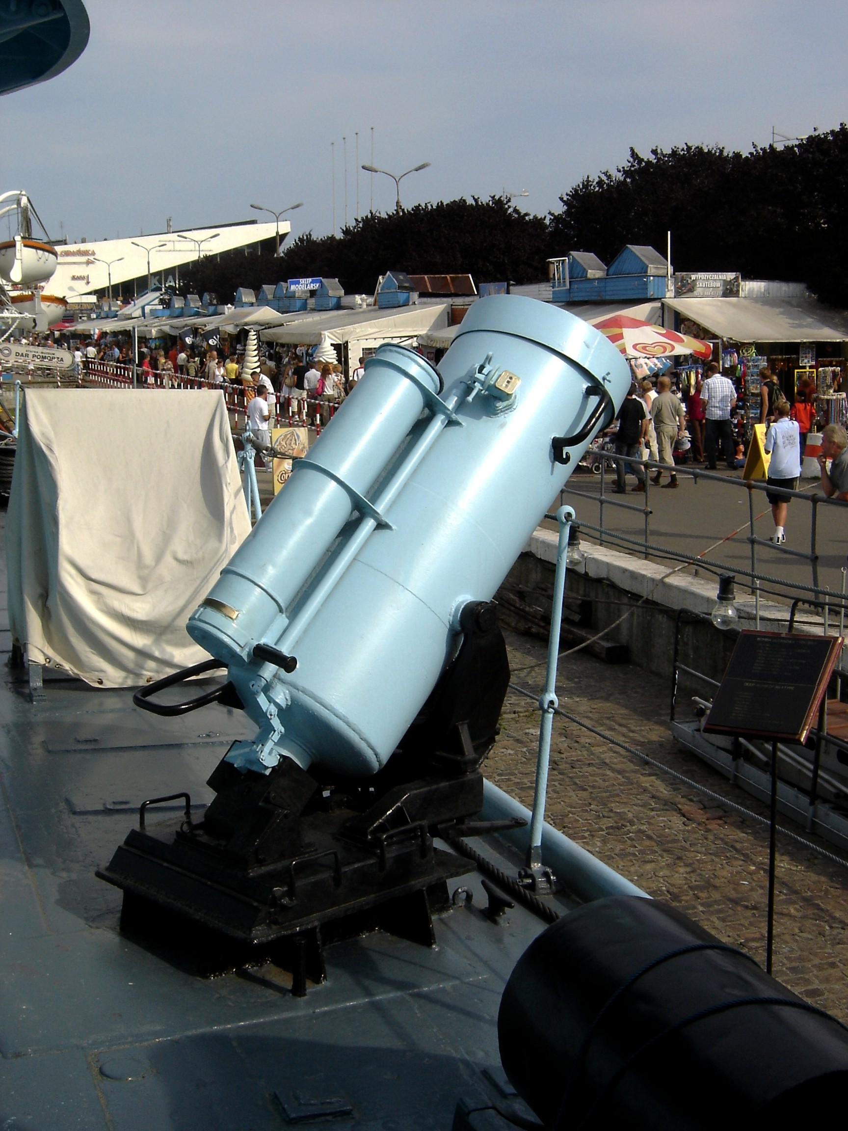 BMB-2 depth charge thrower upon Polish destroyer ORP Błyskawica